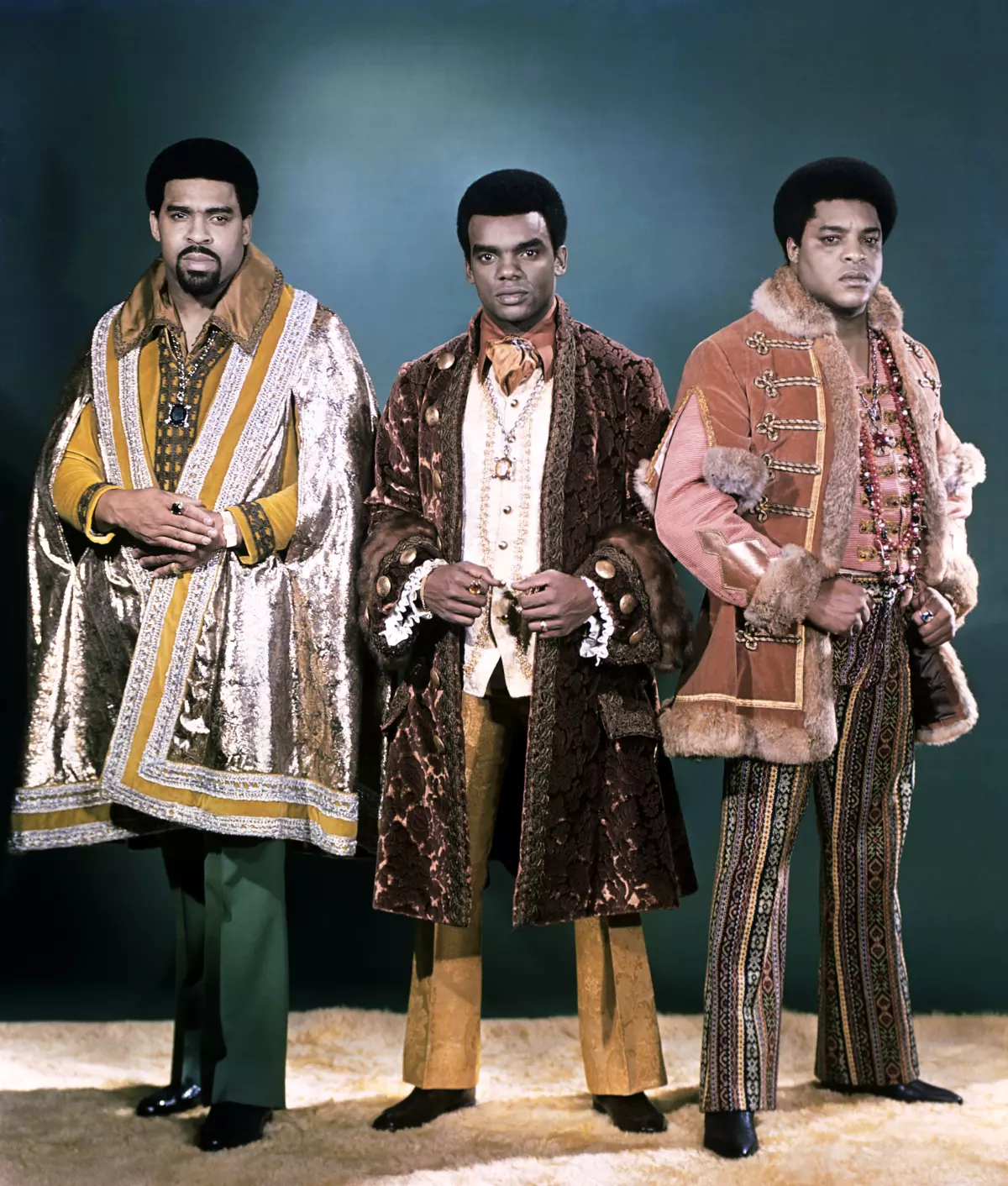 Trade ad for The Isley Brothers' single "It's Your Thing".To better adapt it to his respective Wikipedia article, the ad was cropped and cleaned in a graphics editing program. The original can be viewed at the source below.